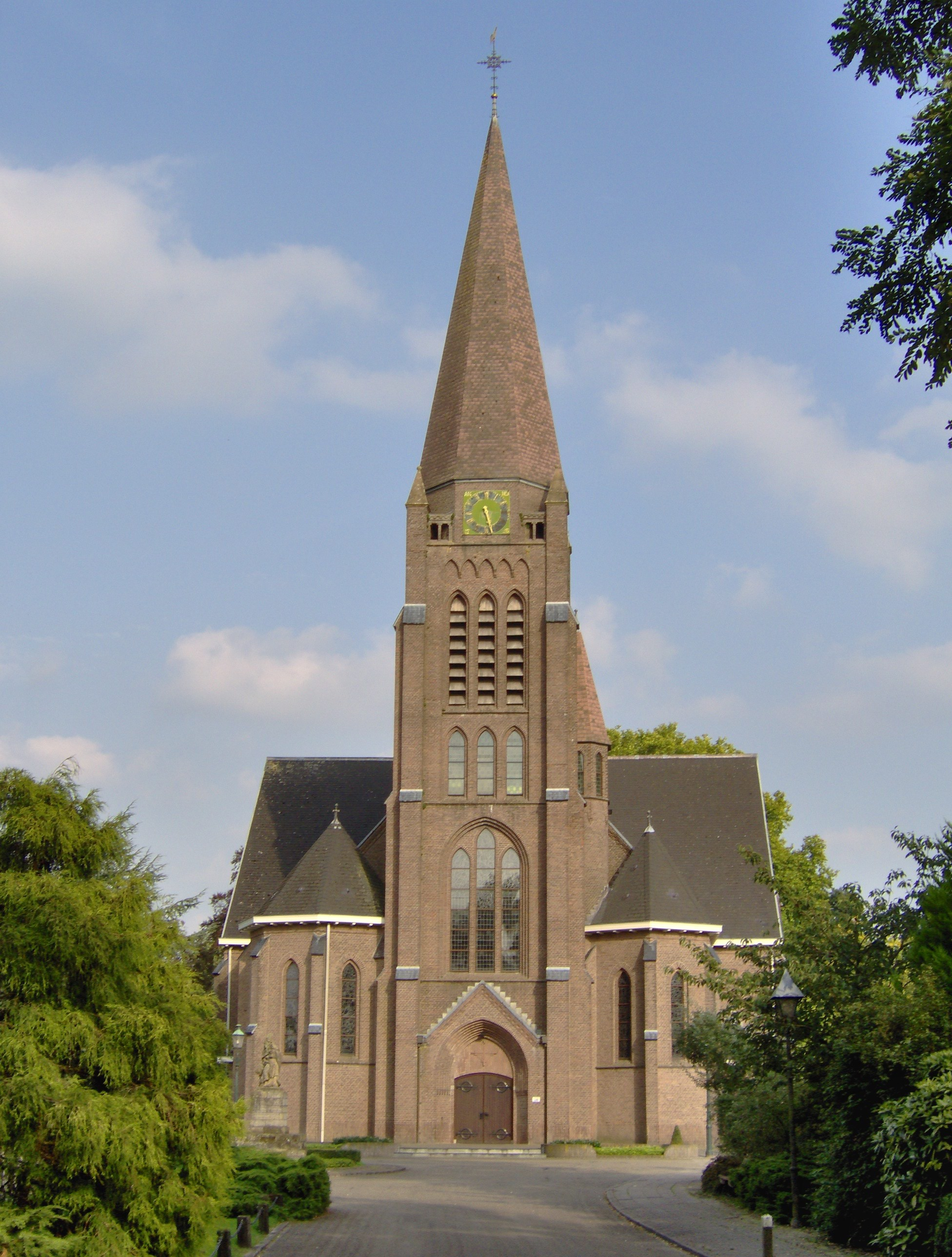 The Heilige Plechelmuskerk in Saasveld Location: Saasveld, a village in the municipality of Dinkelland, Netherlands